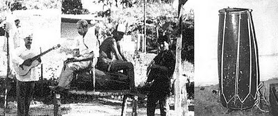 A Zemba band, and a Bombo-drum (of Zemba or Charanda)